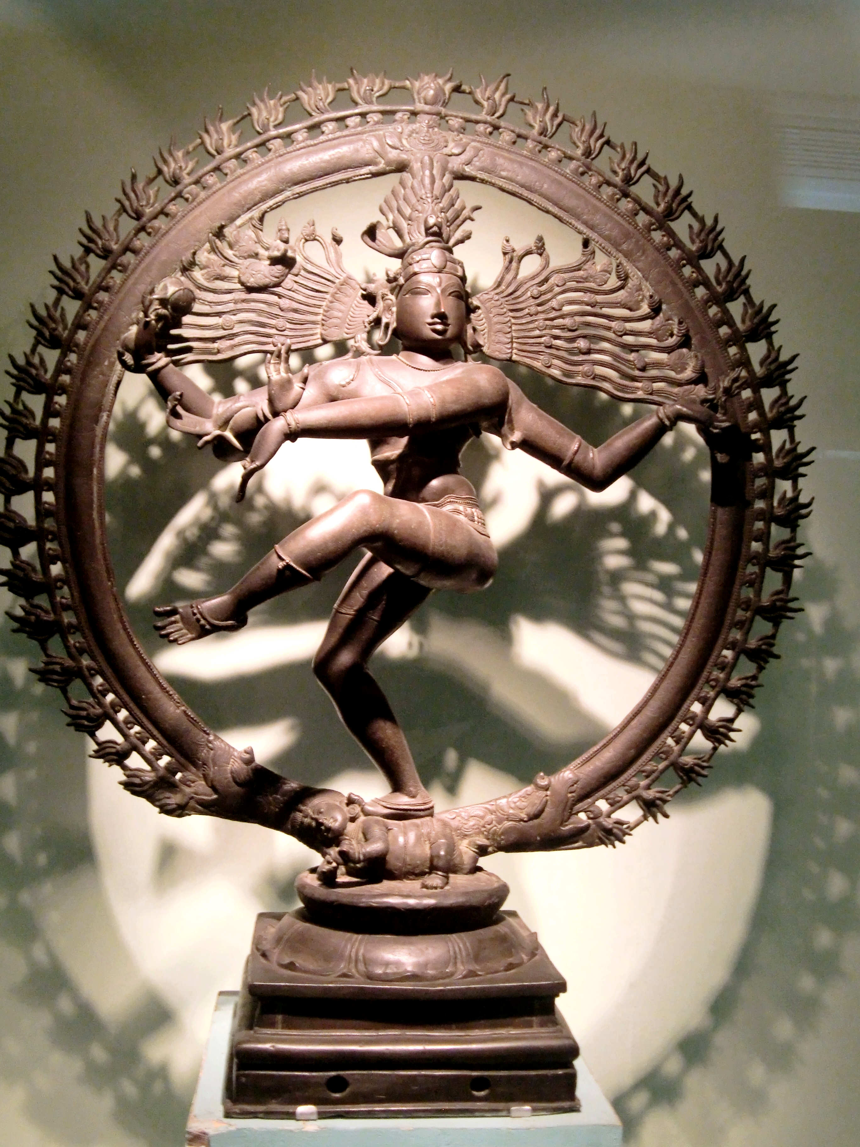 Shiva dancing Nataraja,Chola 12th century A.D.Bronze National Museum India